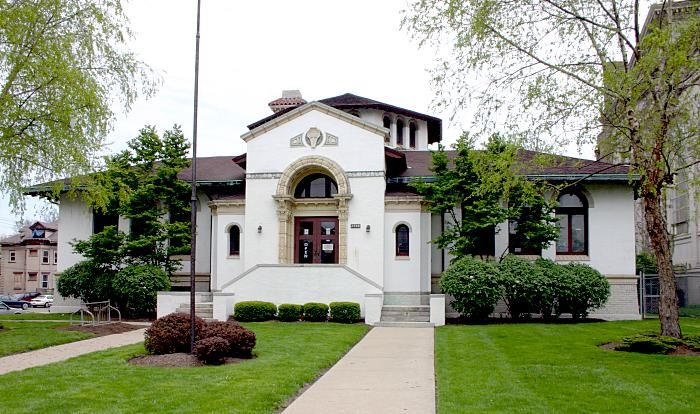 Carnegie library, Cincinnati, Ohio, USA, 2004 by Rick Dikeman